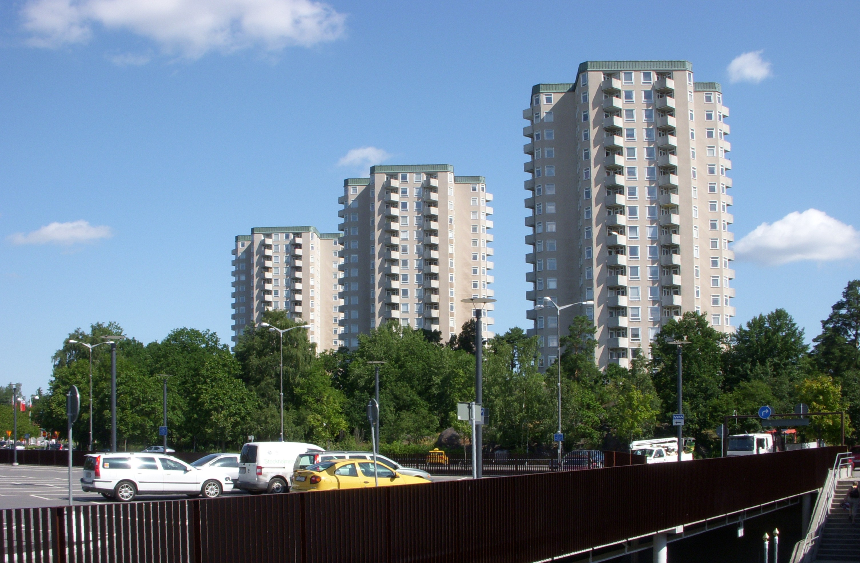 The Hjälmö city block (Farstavägen 87, 89 and 91) in Farsta, Stockholm, Sweden, three 17-story buildings built in 1961. Architects: Backström & Reinius.